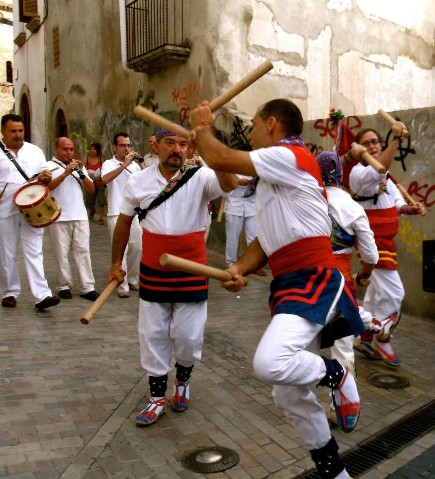 Ball de Bastons, Vilanova, Festa Major 2012